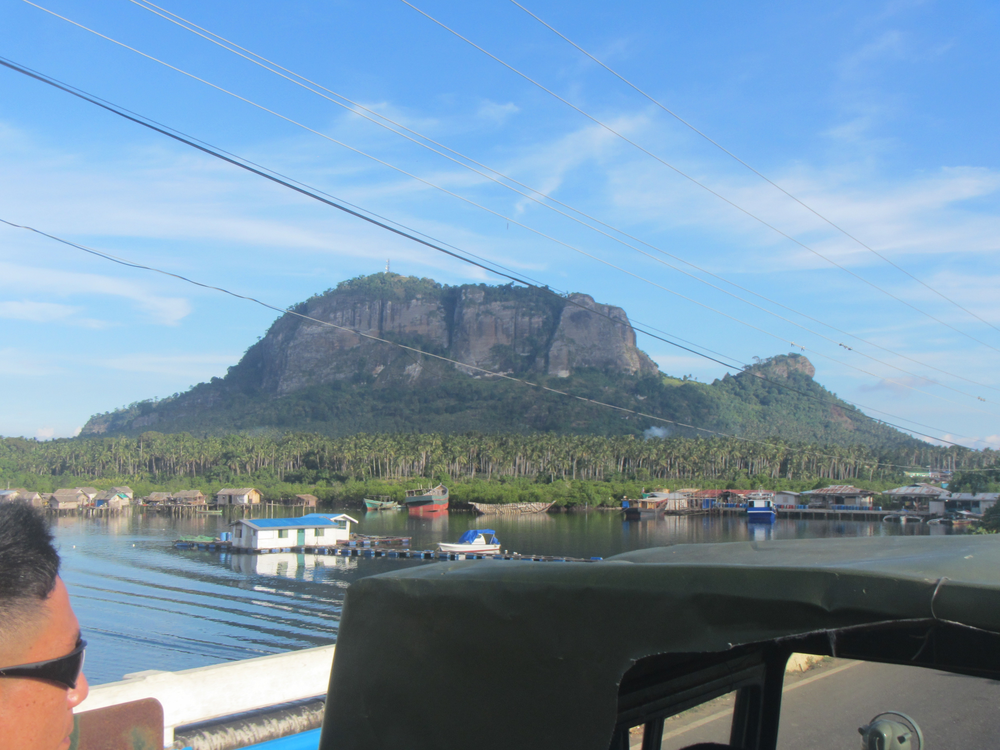 Enroute to Bud Bongao at the province of Tawi-Tawi taken during Schadow1 Expeditions' 2017 mapping expedition of Tawi-Tawi